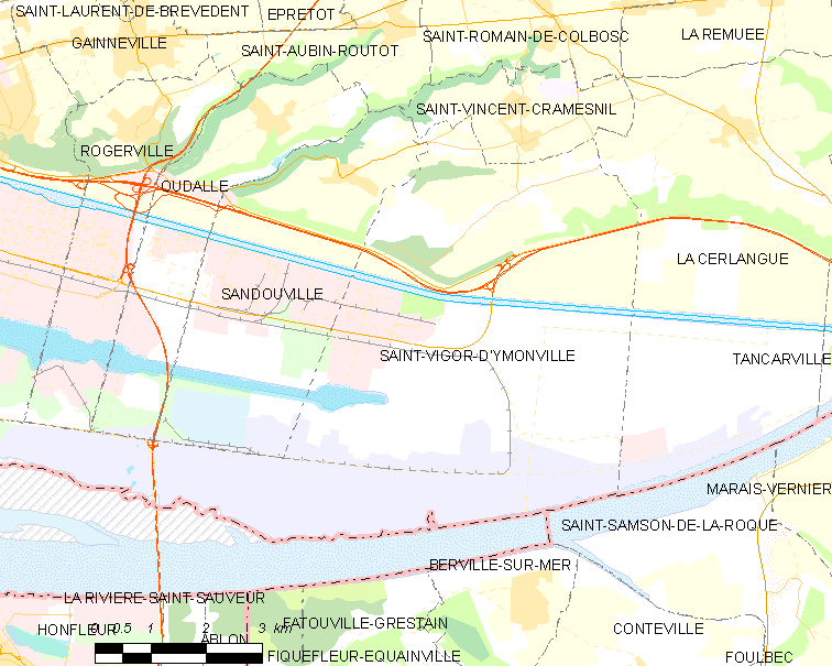 Map of French municipality Saint-Vigor-d'Ymonville